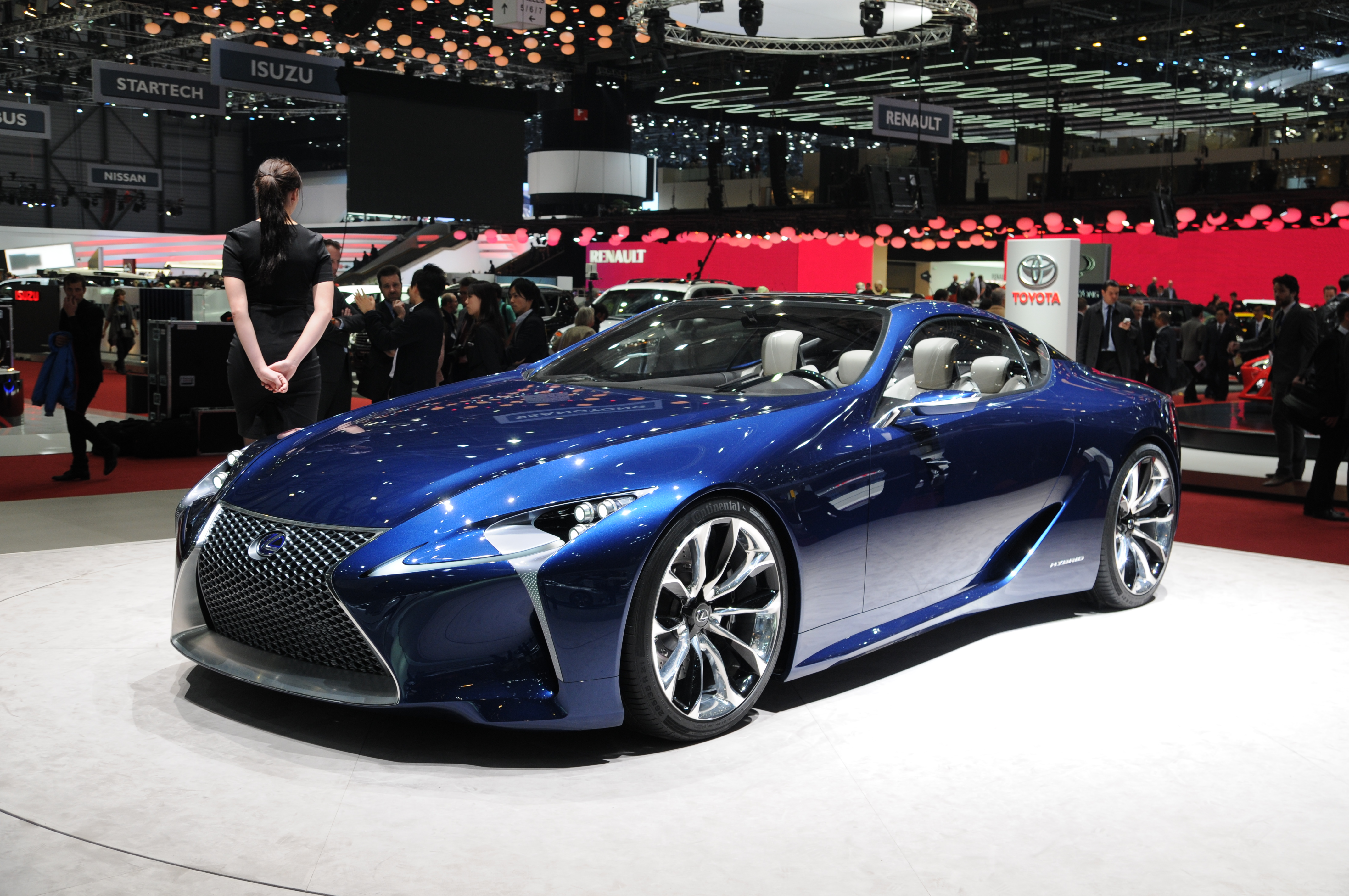 Geneva Motor Show 2013 (photos taken on the first press day)